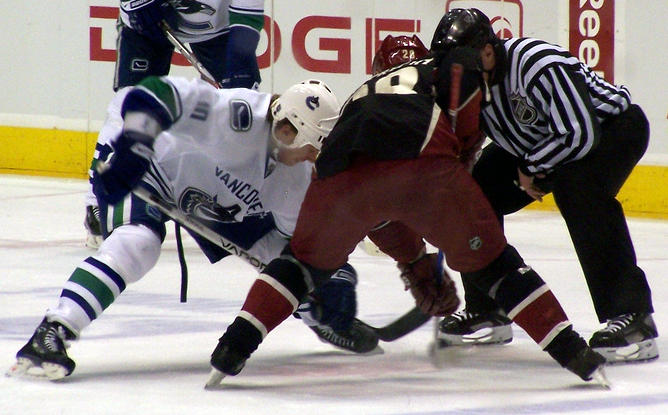 Vancouver Canucks forward Ryan Johnson takes a faceoff in a game against the Phoenix Coyotes on March 21, 2000.